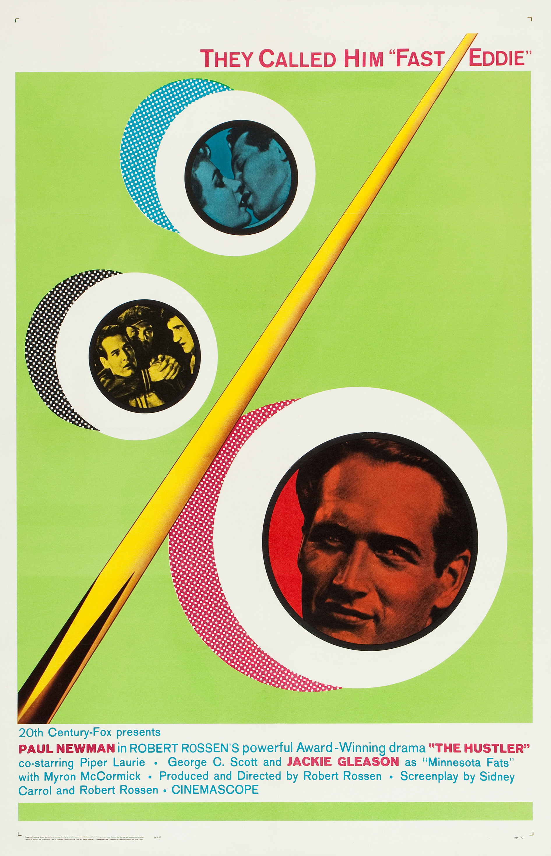 Theatrical poster for the American release of the 1961 film The Hustler.